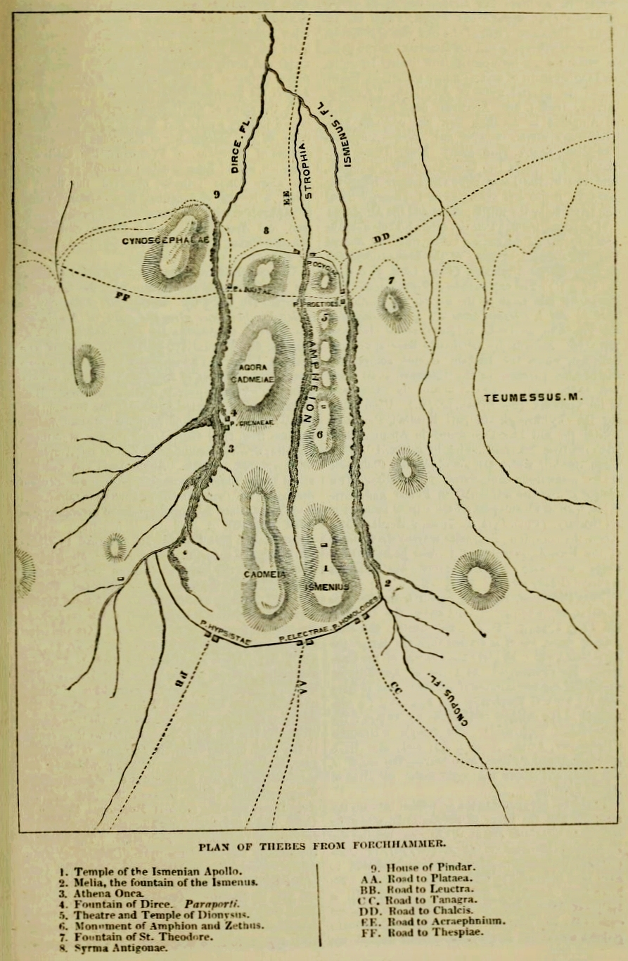 Plan of Ancient Thebes